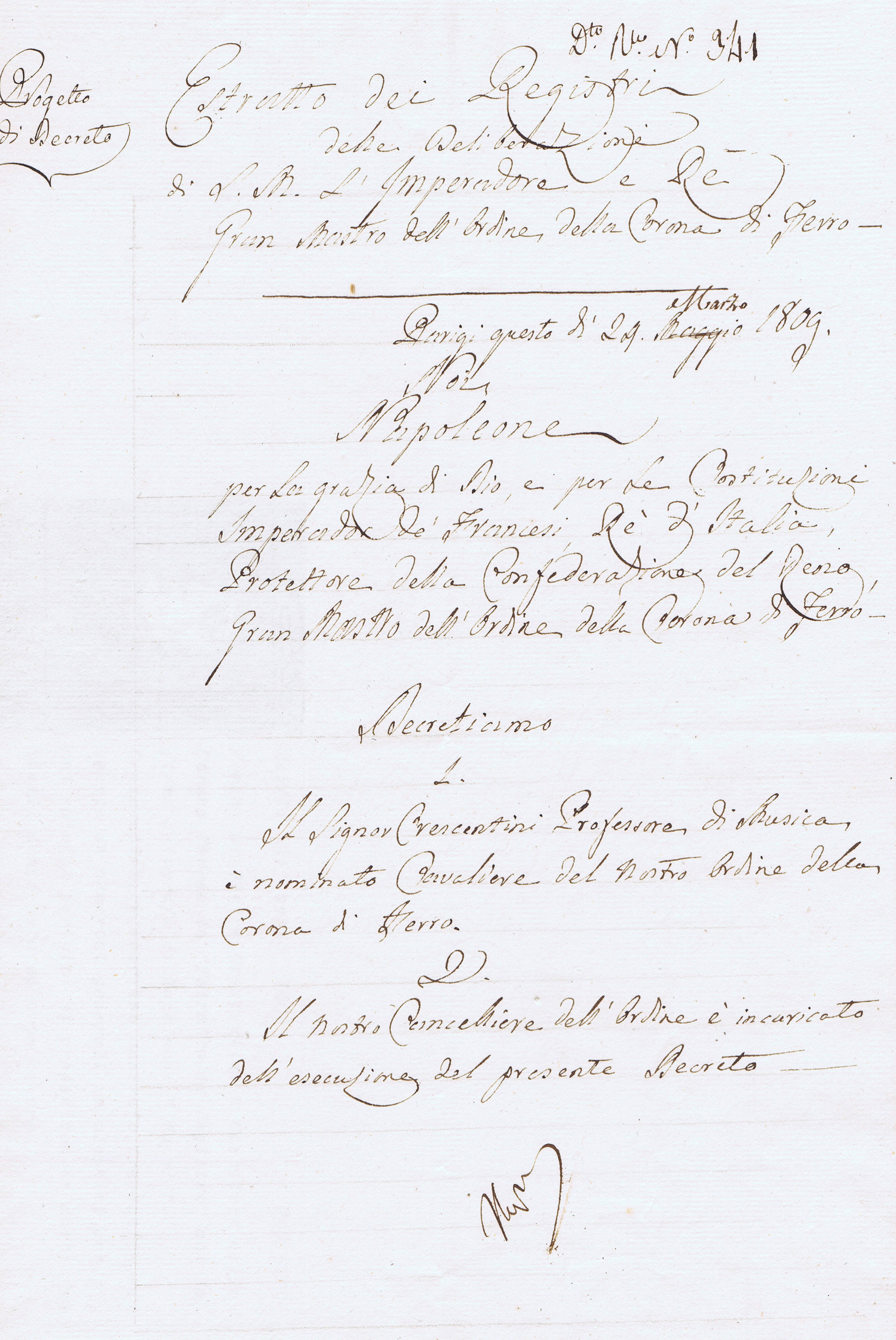 Manuscript certificate of Napoleon's decree conferring to Girolamo Crescentini the Order of the Iron Cross